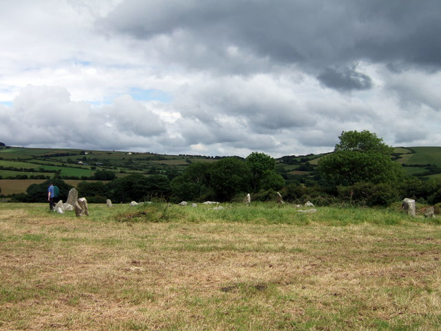 Dyffryn Syfynwy stone circle from the west This was a quite a find! Marked on the map simply as 'cairn' it has the appearance of a circle of stones, 10 of which are standing with many more lying. It is thought to be the remains of a ring cairn, the encircling stones once having supported a burial mound in the centre but it has some unusual features, a splendid setting and deserves better care than it is currently getting. For some additional comments